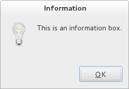 A Zenity dialog box as displayed on GNOME 3 (Fedora 17)